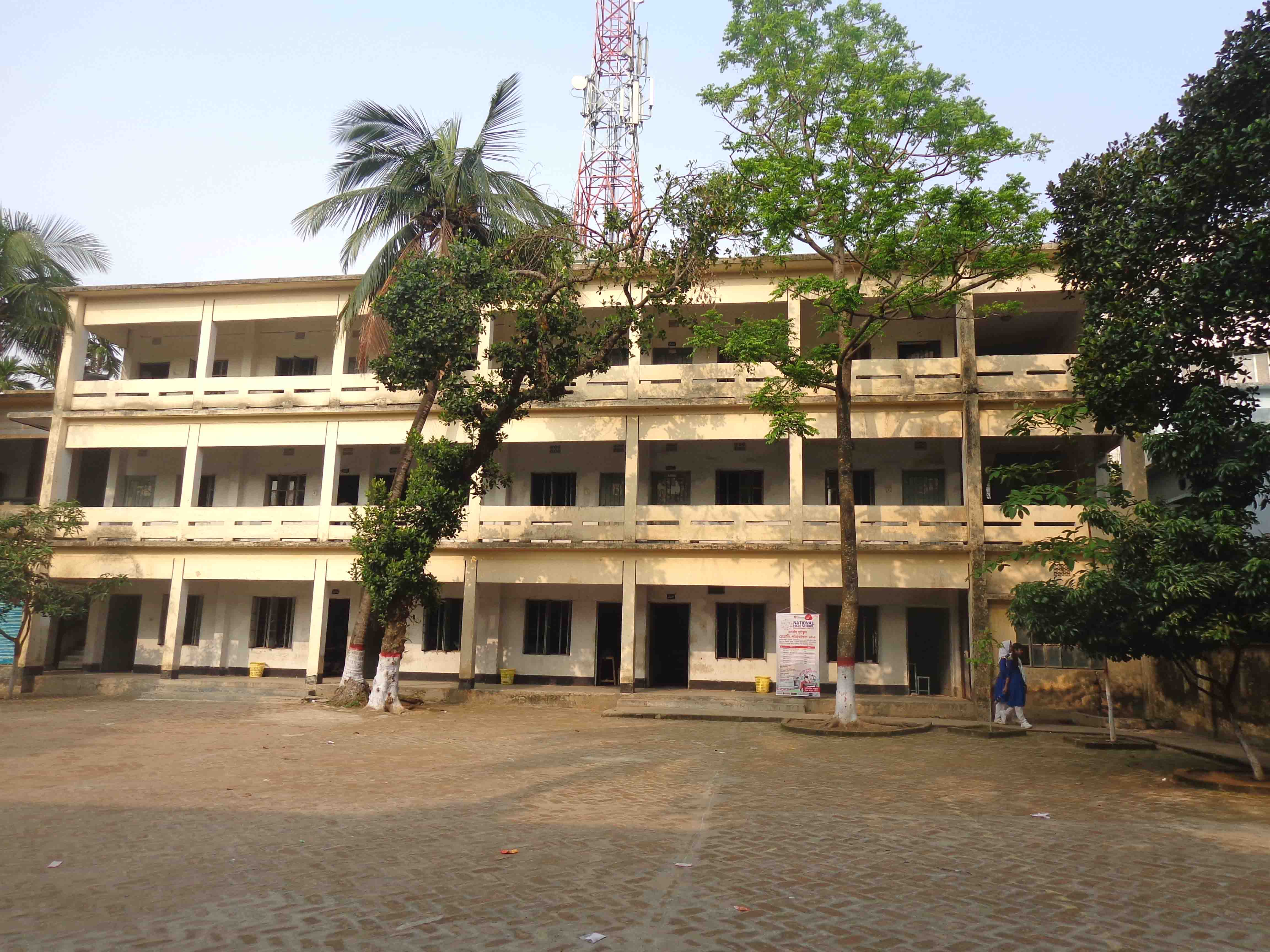 একাডেমিক ভবন, বগুড়া সরকারী বালিকা উচ্চ বিদ্যালয়